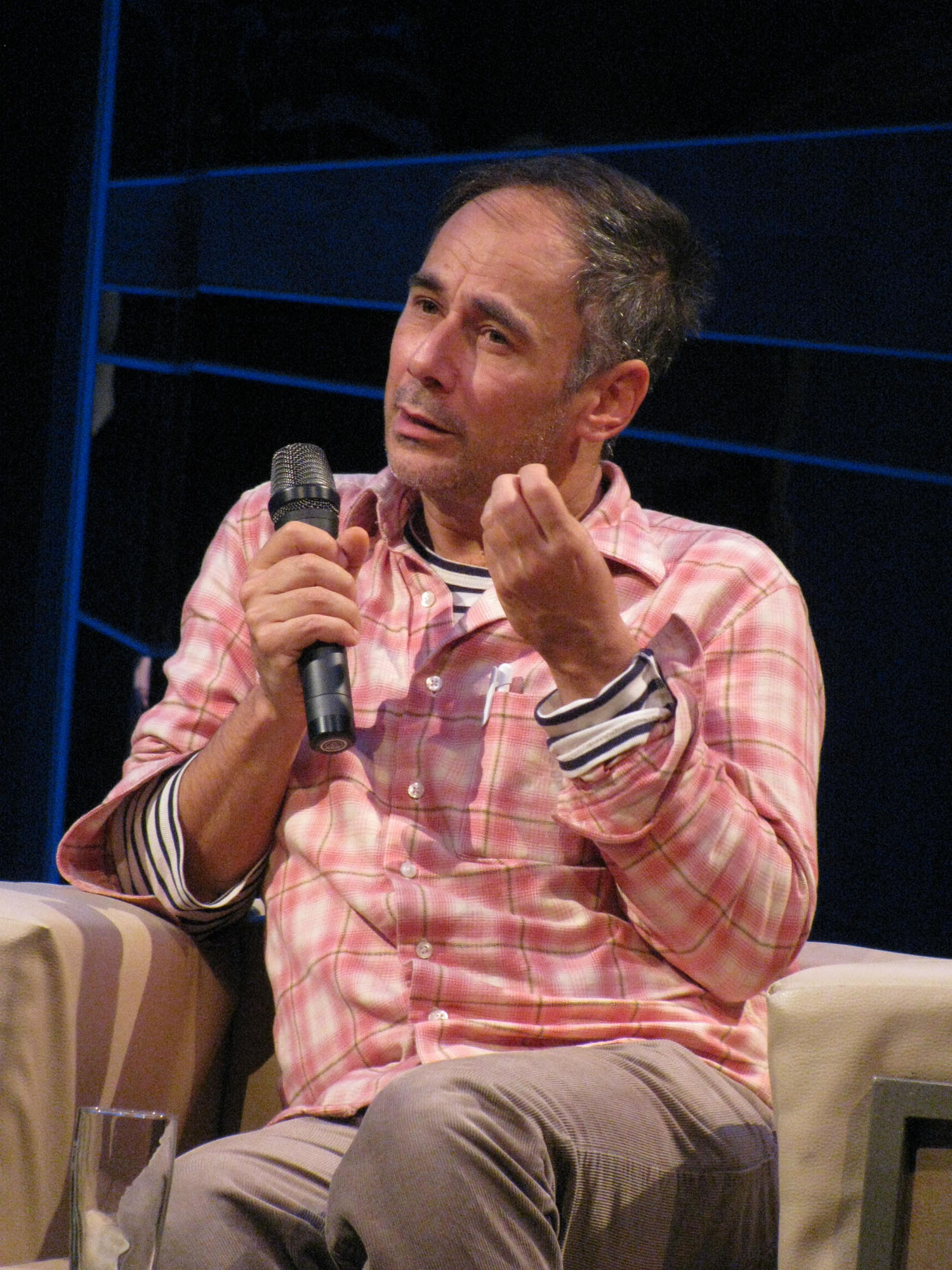 French choreographer Jérôme Bel, panel discussion at Hebbel Theatre Berlin, November 2012.